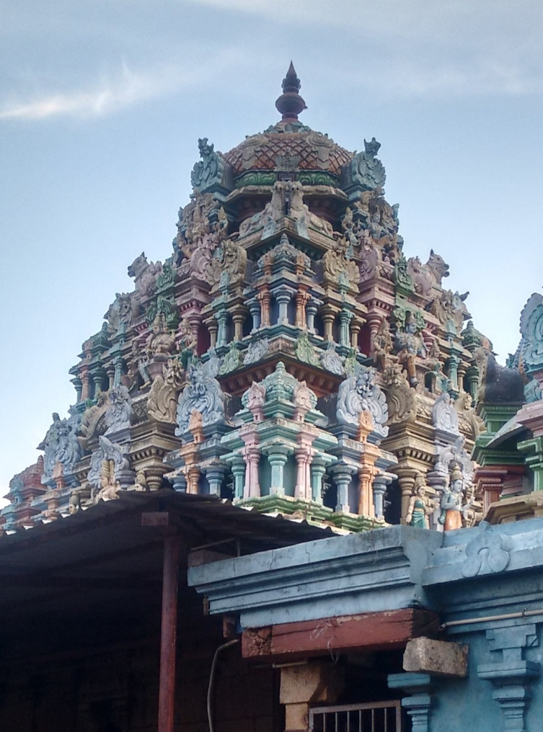 Thilagaipathi temple சிதிலப்பதி முத்தீசுவரர் கோயில்